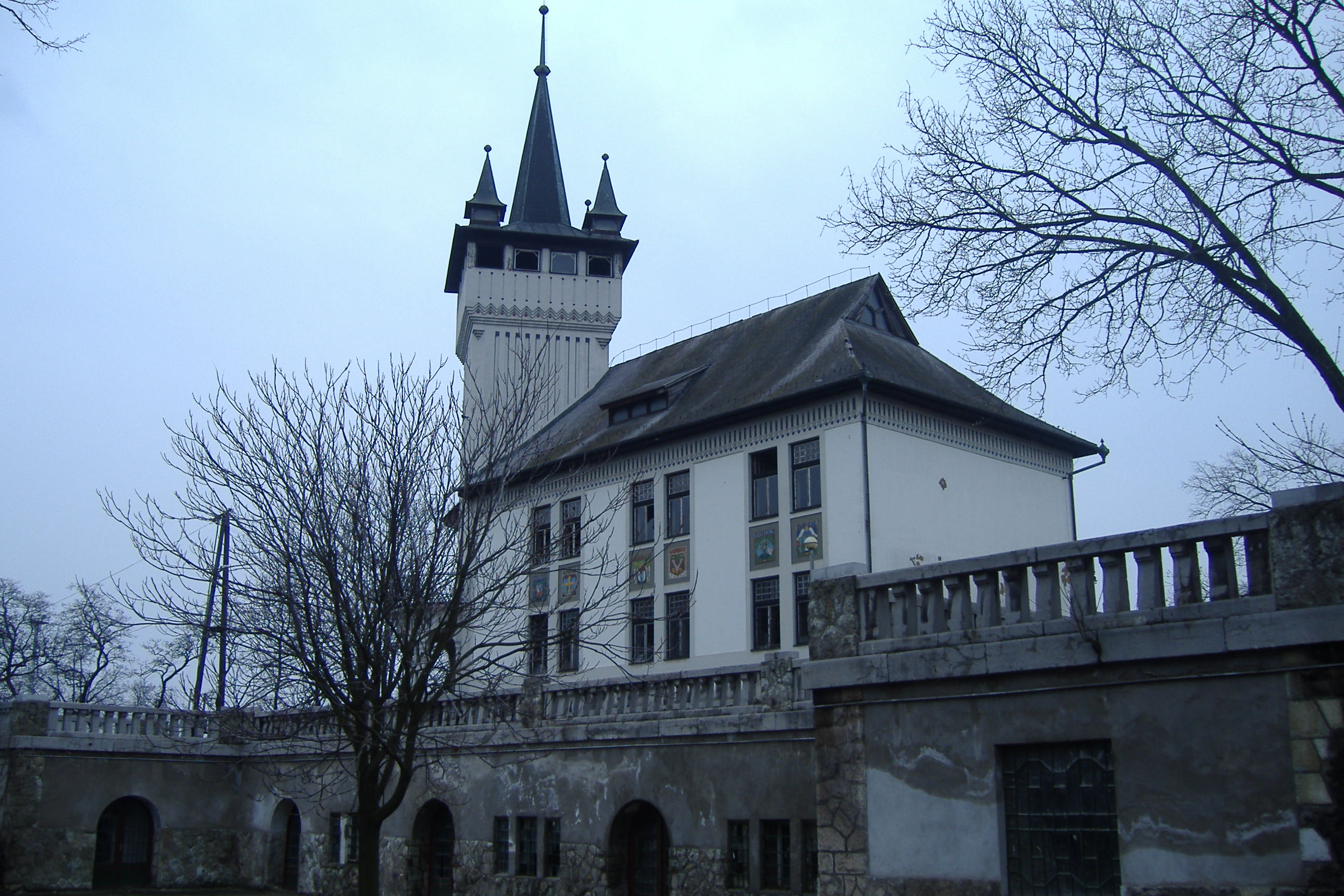 The Wine Church